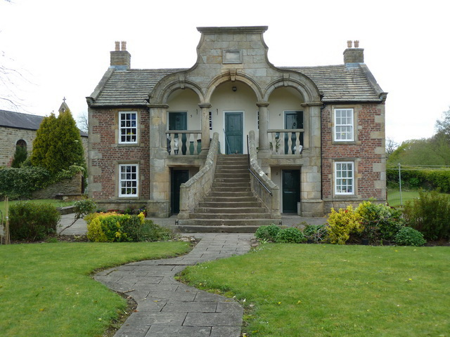 Almshouse, Ribchester, England.